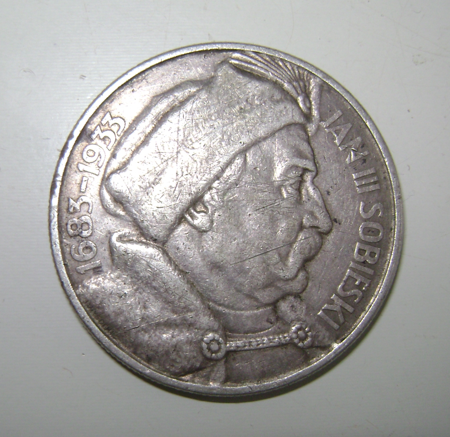 Poland. Coin